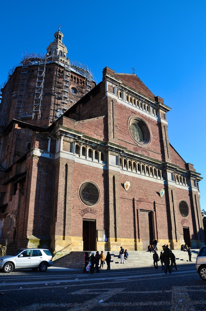 Duomo of Pavia, Italy